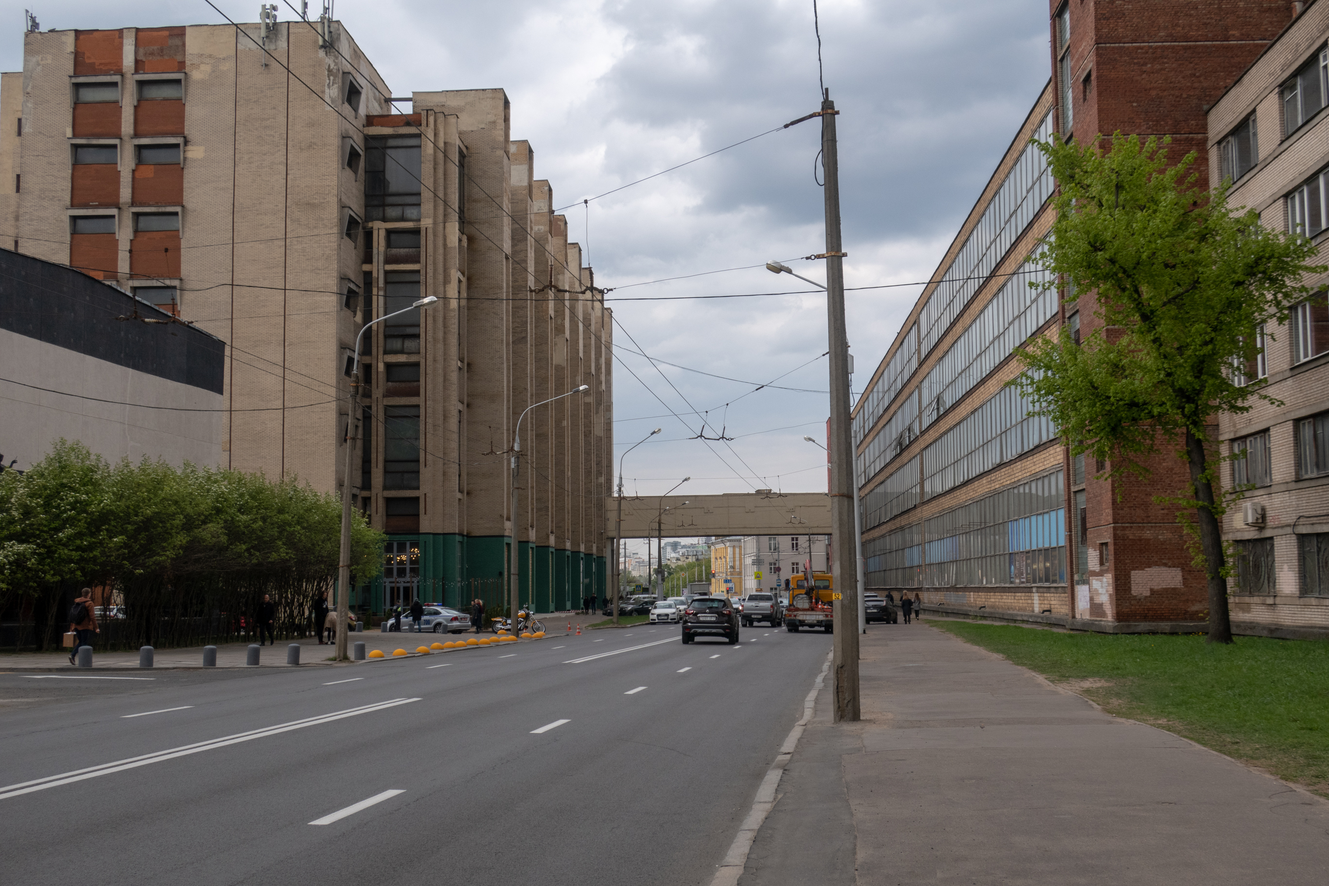 Kujbyšava Street (Minsk, Belarus)